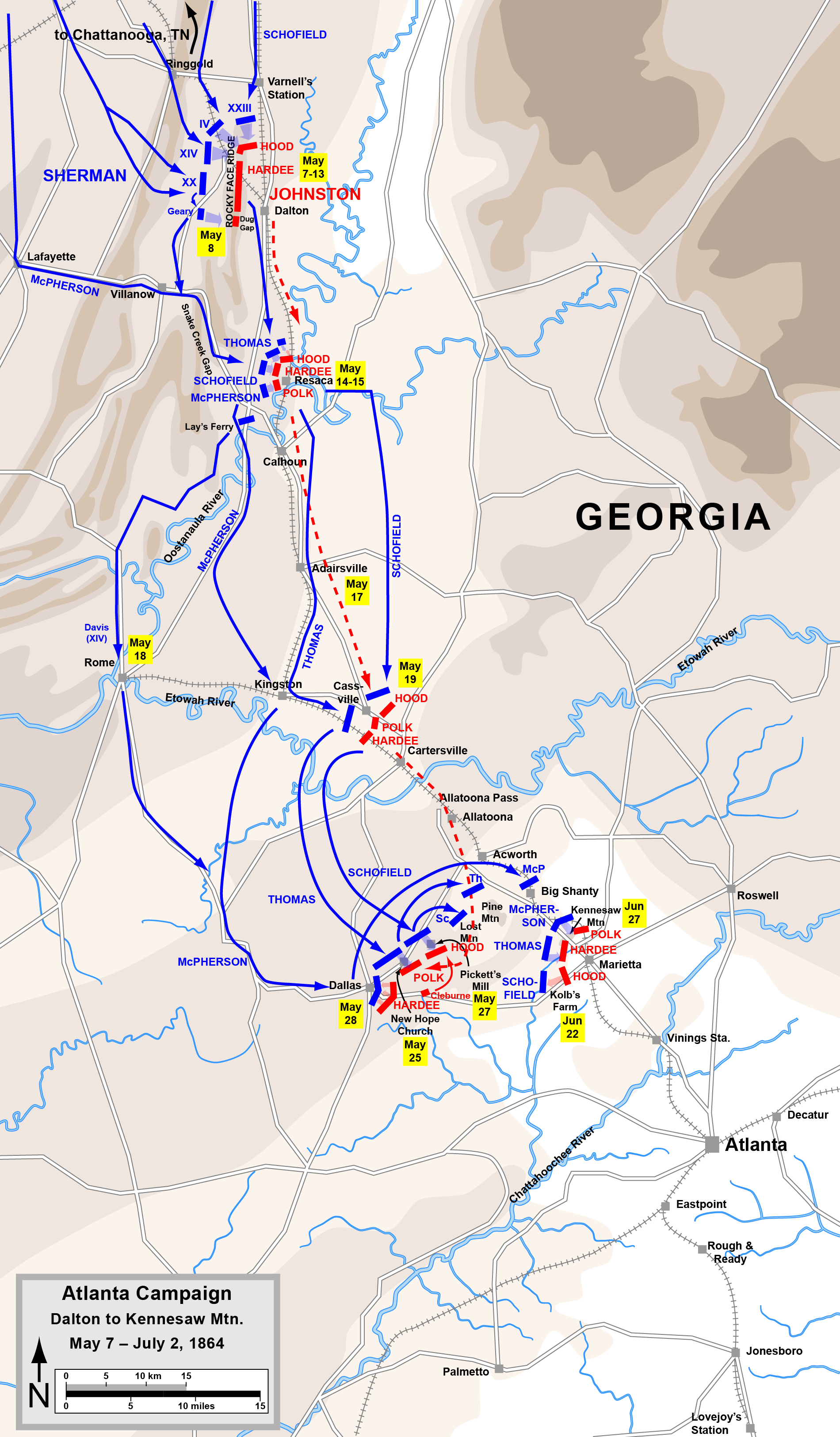 Map of the Atlanta Campaign of the American Civil War--actions from May 7 to July 2, 1864. Drawn in Adobe Illustrator CS5 by Hal Jespersen. Graphic source file is available at